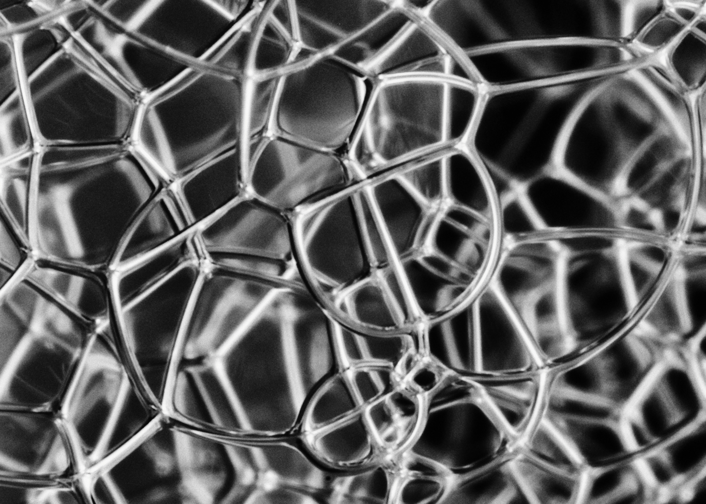 A macro of soap bubbles (more accurately foam I think) processed through Lightroom and Silver Efex Pro. The photos were taken in my DIY light box. I noticed some rather unusual bubbles on a brush used to clean a blender in which a protein shake had been made. The brush had been in the sink for some time and the bubbles were still formed so i decided to do some macro photography. The second photo is not a macro that gives a better idea of the clump of bubbles.